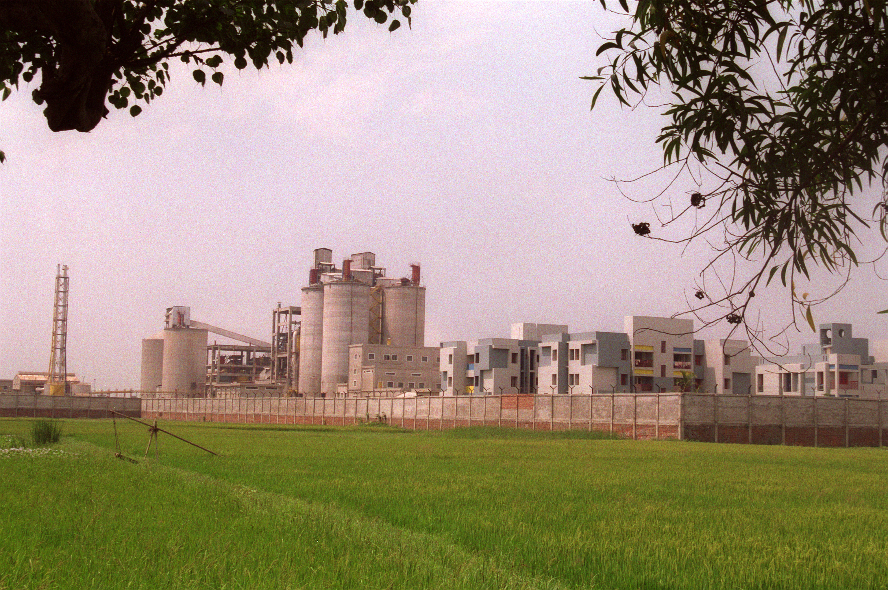 The cement factory of Ambuja group at Dhulagarh, howrah